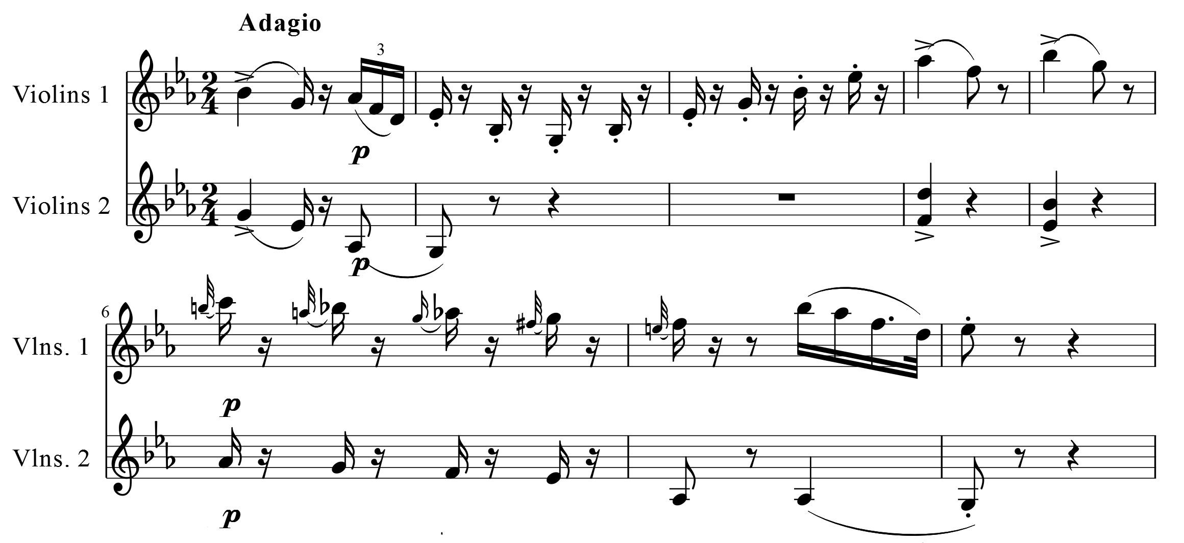 Joseph Haydn, Symphony No. 78, second movement, bar 1-8